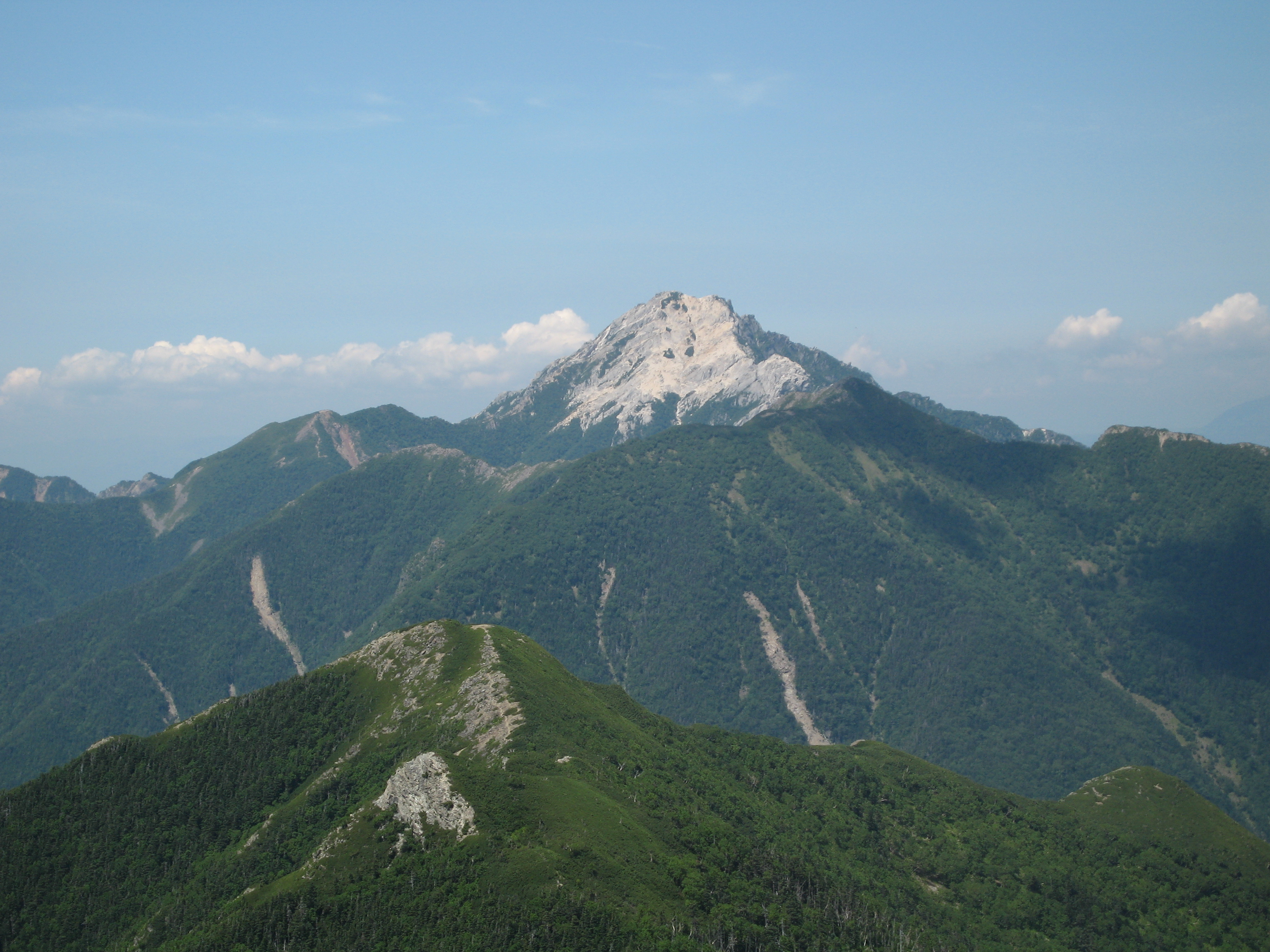 Kaikomagatake seen from the south. Take from Kitadake.